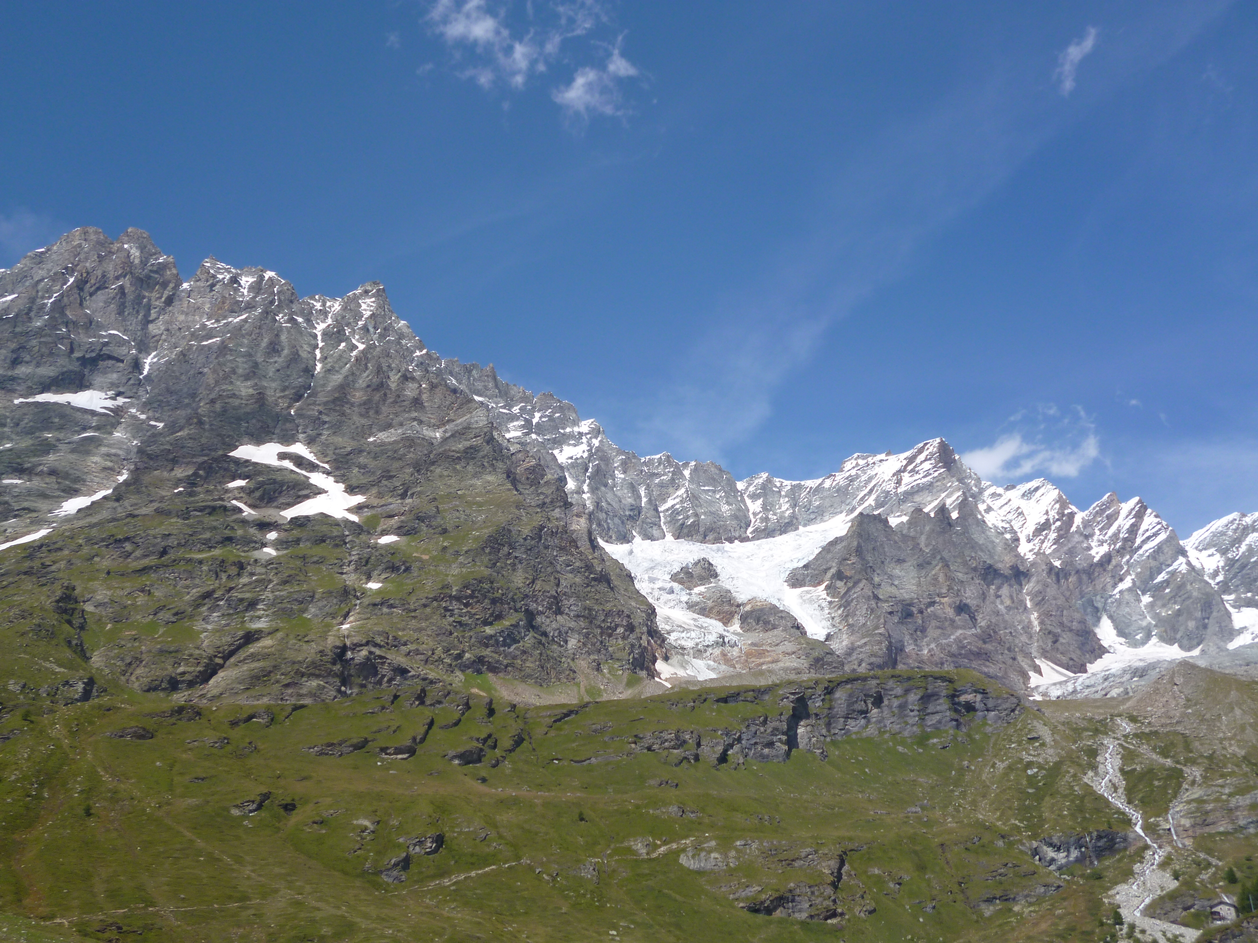 Grandes Murailles from east, from Cervinia